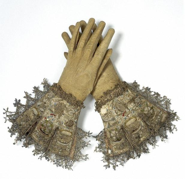 Pair of gloves, 1603-1625 V&A Museum no.1506&A-1882 Techniques - Leather and satin, embroidered with silk and metal thread, spangles and seed pearls Artist/designer - Unknown Place - England Dimensions - Height 9 cm (maximum, at lace cuffs), Width 26 cm (maximum), Length 41.5 cm (maximum) Object Type - Gloves served several purposes in early 17th-century England. Many were solely decorative, to display the wealth and status of their owner. They were worn in the hat or belt, as well as carried in the hand. Gloves were popular as gifts and were often given by a young gallant to his favourite mistress. In combat, a glove was thrown down as a gage, or challenge. Materials & Making - Seed pearls decorate this very richly embellished glove. Silver and silver-gilt thread and purl (short lengths of metal thread curled tightly together like a minute spring), spangles (an old term for sequins) and coloured silks cover the densely embroidered satin gauntlet. Each motif is heavily padded underneath with additional stitches to give a pronounced three-dimensional effect. Subjects Depicted - A snail, a lion and a sheep are embroidered on the gloves. These animals may relate to the heraldry of the owner. They could also be personal devices of the wearer, chosen to represent some individual quality or virtue. Many of the motifs that appear in Jacobean embroidery were copied from emblem books. This was a popular form of literature, which linked visual images with moral virtues.